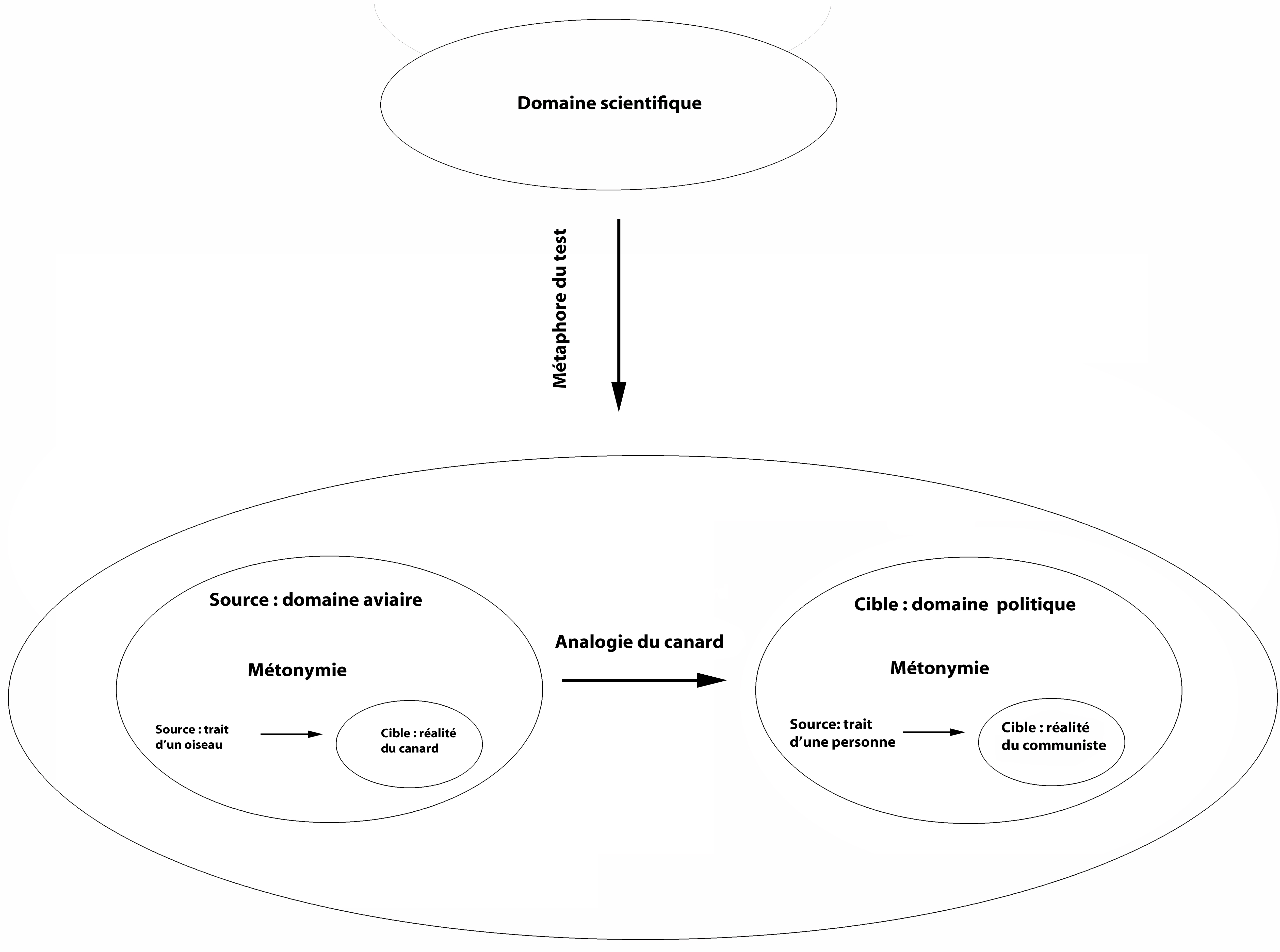 Diagramme montrant l'imbrication des projections d'après Metaphoric Complexes: A Spanish-English Contrastive Analysis of Metaphor and Metonymy in Interaction de Alicia Galera Masegosa, RESLA 23 (2010).